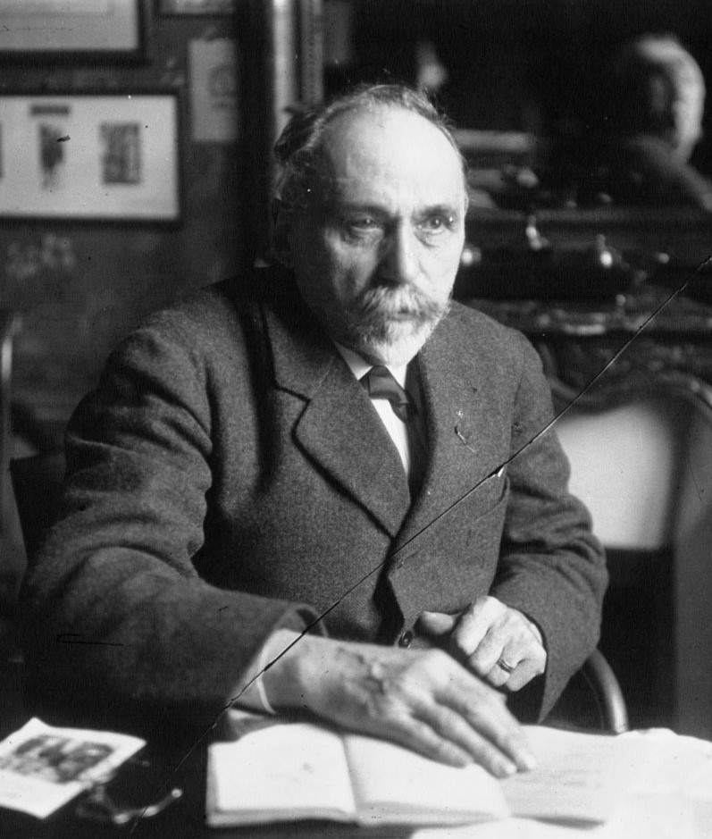 French journalist and geographer Victor-Eugène Ardouin-Dumazet (1852-1940).